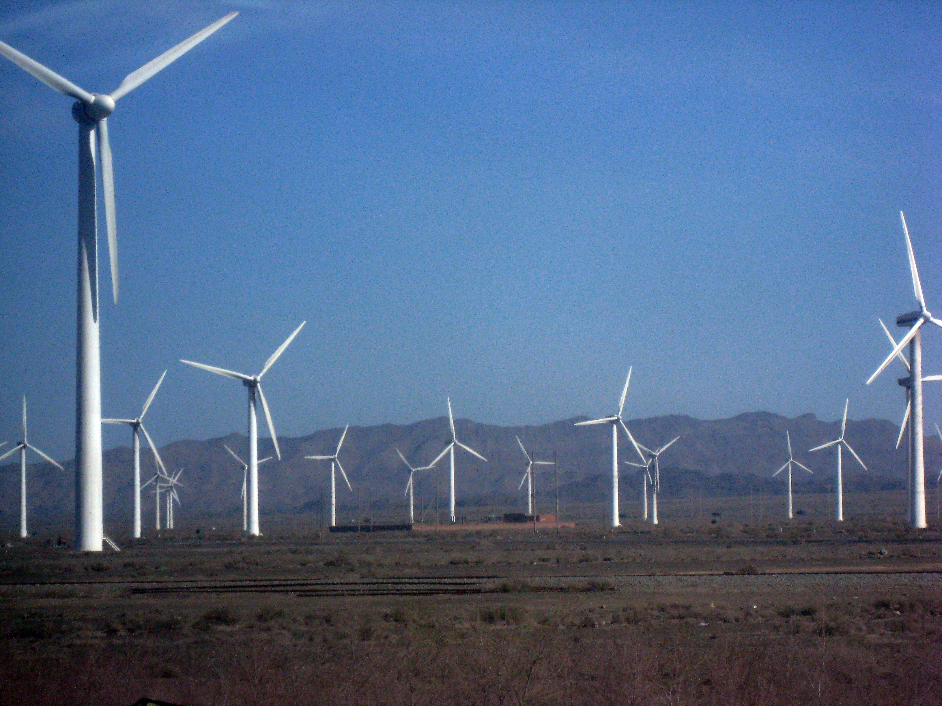 Wind farm in Xinjiang viewed from the Lanxin railway.